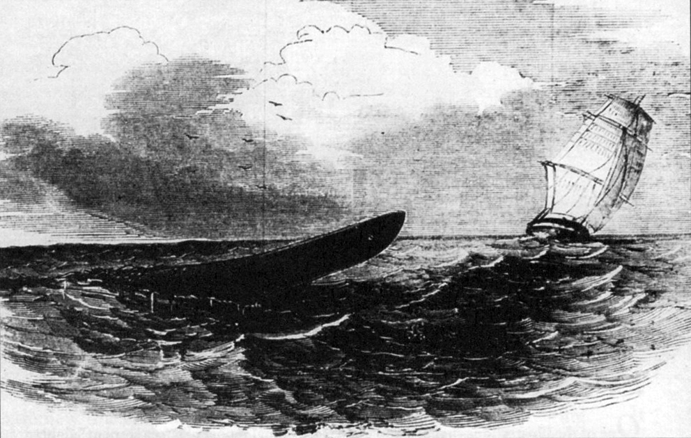 The "long black creature" sighted by the crew of the HMS Plumper off the Portuguese coast in 1848.